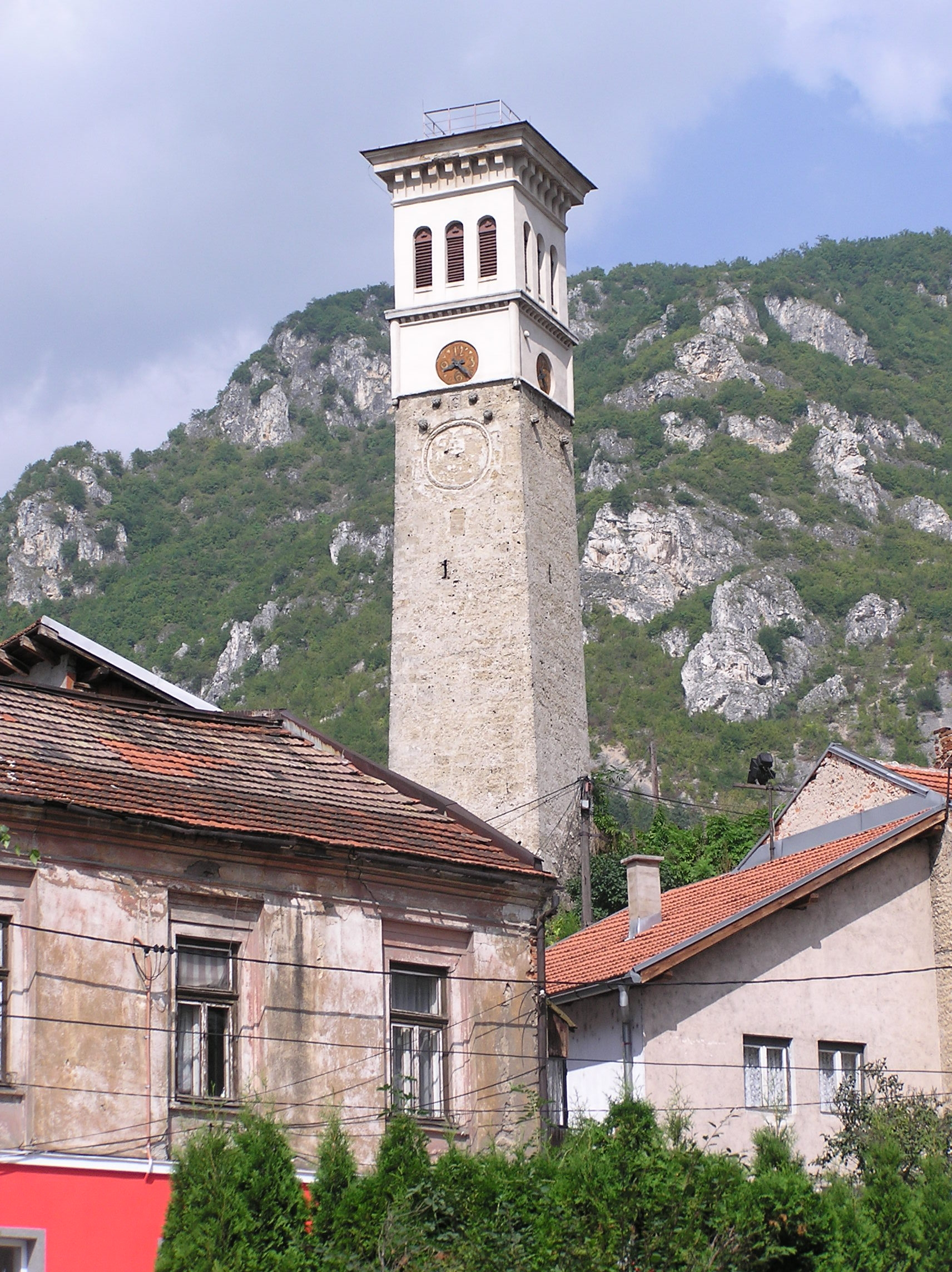 Clock Tower, Saat Kulesi, Sahat Kule Author: Mehmet E Yavuz